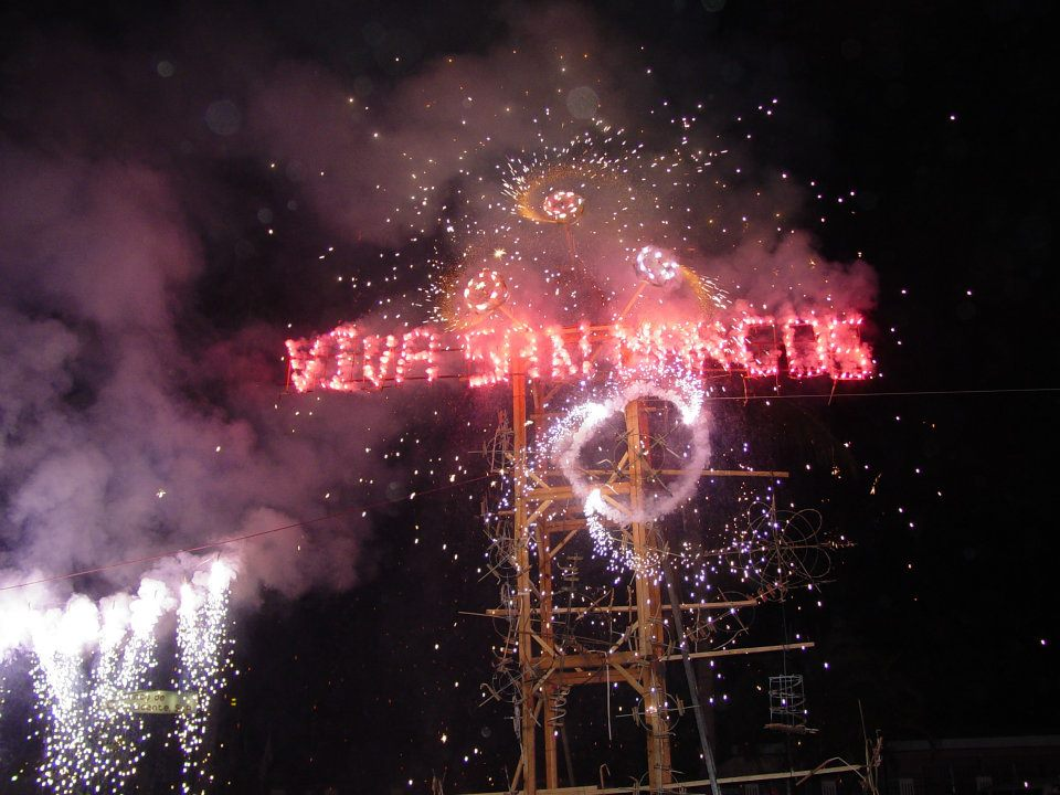 Feria San Marcos